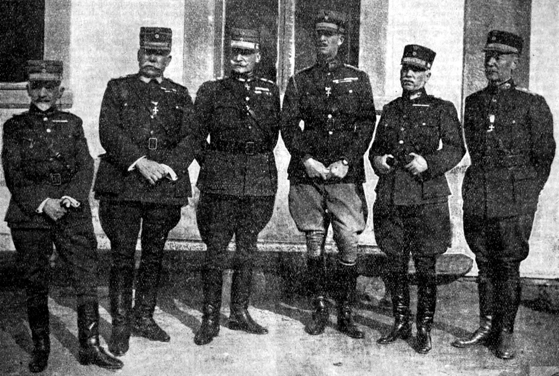 The Council of Lt. Generals convened at Smyrna after the Battle of Sakarya in September 1921. From left: Andreas Baïras, CO of V Army Corps in Epirus Alexandros Kontoulis, CO of I Corps, C-in-C of the Army of Asia Minor, Anastasios Papoulas, Prince Andrew of Greece, CO of II Corps, Alexandros Momferatos, CO of the Army of Thrace, and Georgios Polymenakos, CO of III Corps.